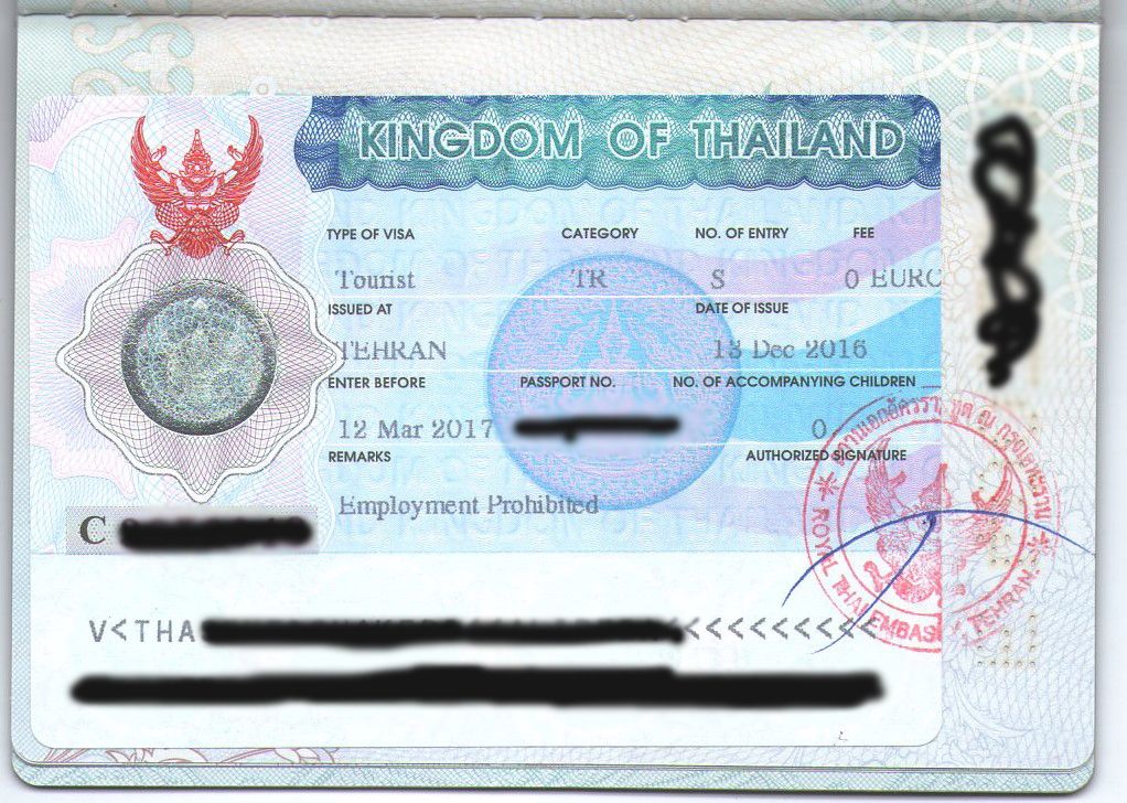 Thailand visa issued to a national of Iran.